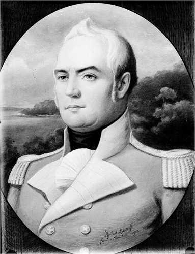 John Harris (1754 – 27 April 1838)